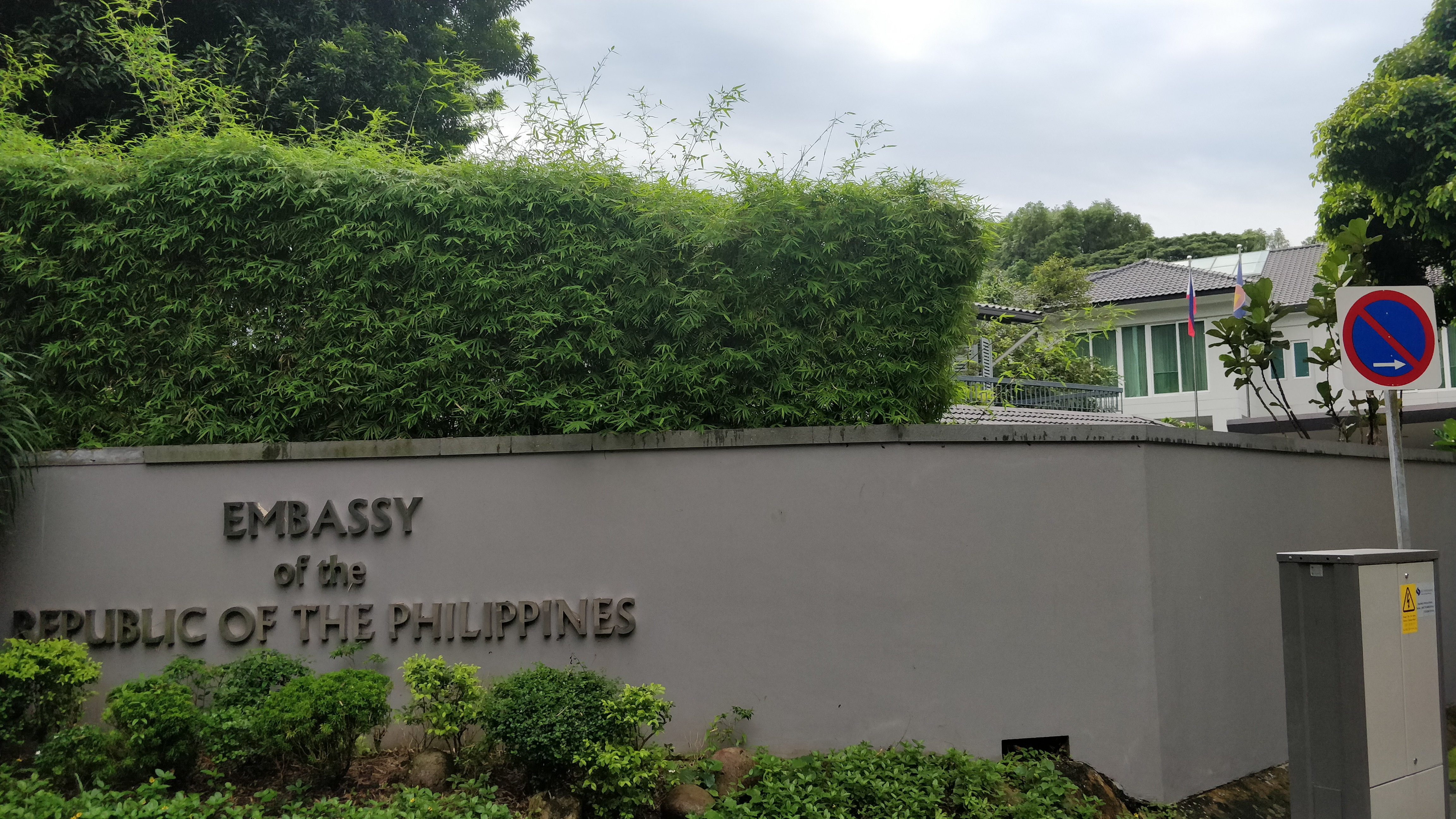 Chancery of the Republic of the Philippines. Embassy of the Philippines in Singapore.